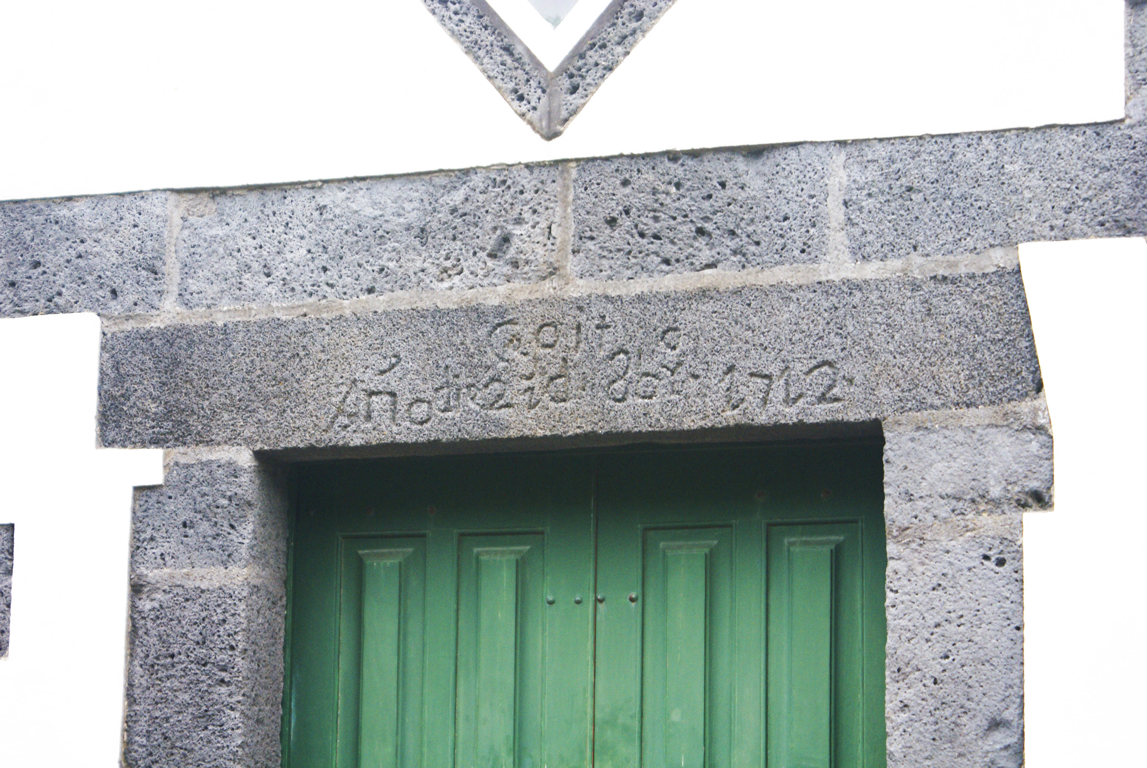 Entranceway of the Chapel of Nossa Senhora da Conceição, with inscription, Valverde, Madalena do Pico, Pico (Azores), Portugal